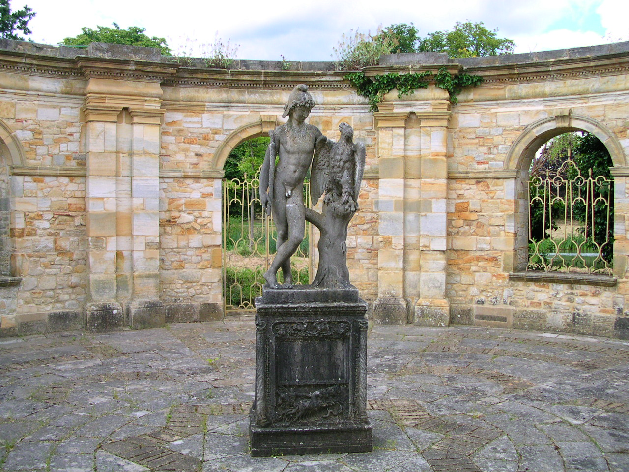 Hever Castle gardens, Kent, England.